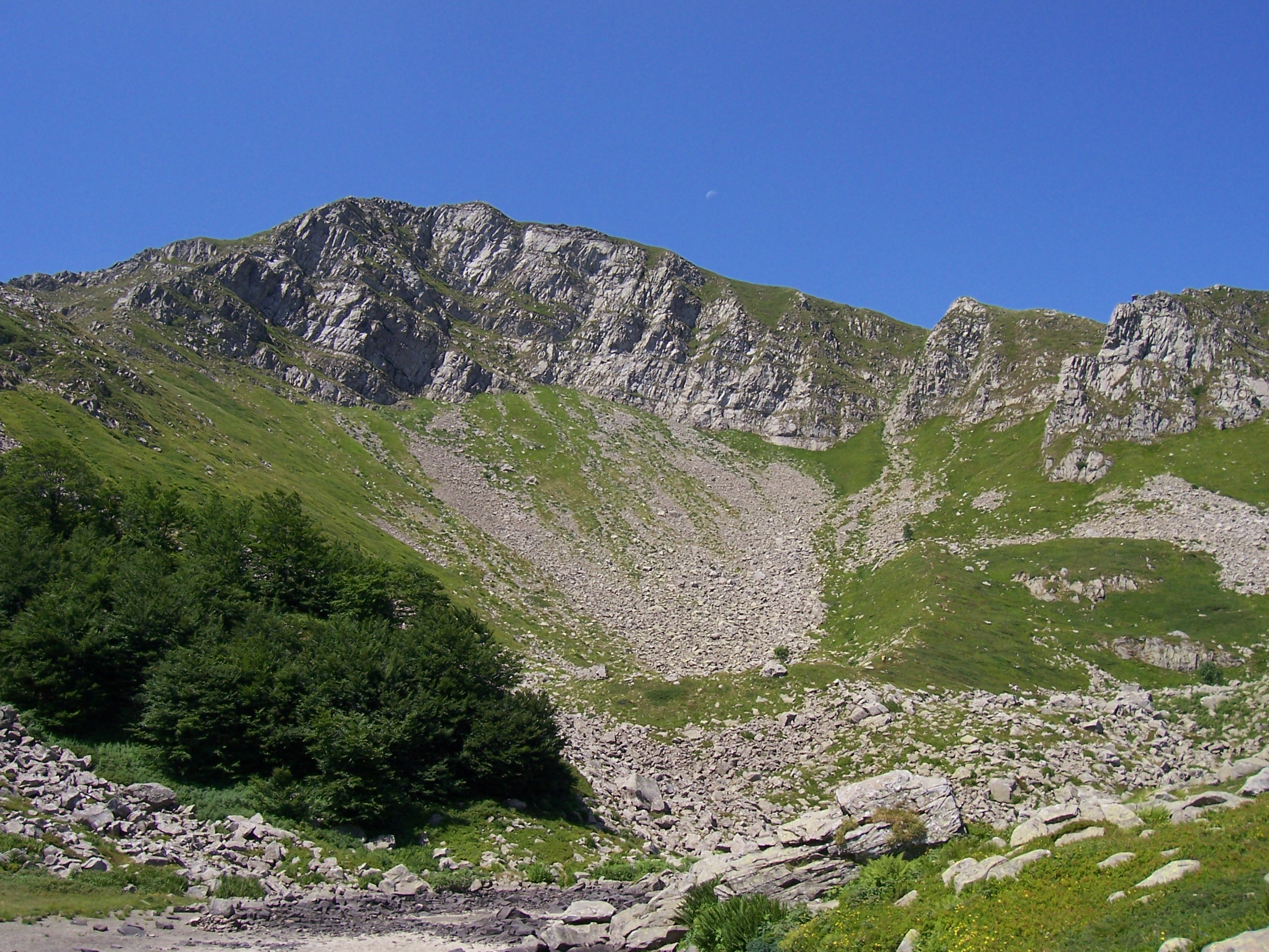 Rondinaio Mountain from Torbido Lake